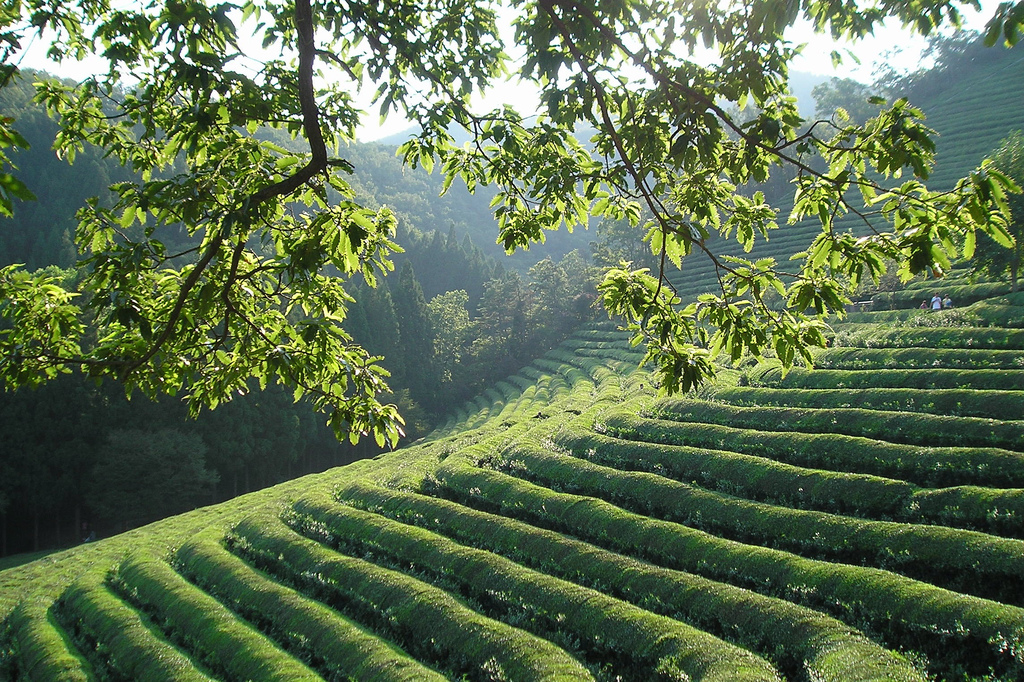 500 year old green tea fields, Boseong, Jeollanam-do, South Korea